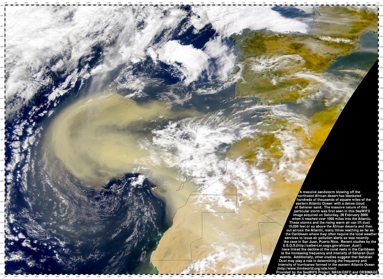 Explanation: From low Earth orbit, NASA's SeaWIFS instrument records ocean color, tracking changes in our water world's climate and biosphere. But even an ocean planet can have dust storms. On February 26th, SeaWIFS returned this dramatic close-up view of a vast, developing cloud of Saharan desert dust blowing from northwest Africa (lower right) a thousand miles or more out over the Atlantic Ocean. While there are indications that the planet-spanning effects of the Saharan dust events include the decline of the ecologies of coral reefs in the Caribbean and an increased frequency of Atlantic hurricanes, there is also evidence that the dust provides nutrients to the Amazonian rain forests. From space-based vantage points, other satellite images have also revealed storms which transport massive quantities of fine sand and dust across Earth's oceans.